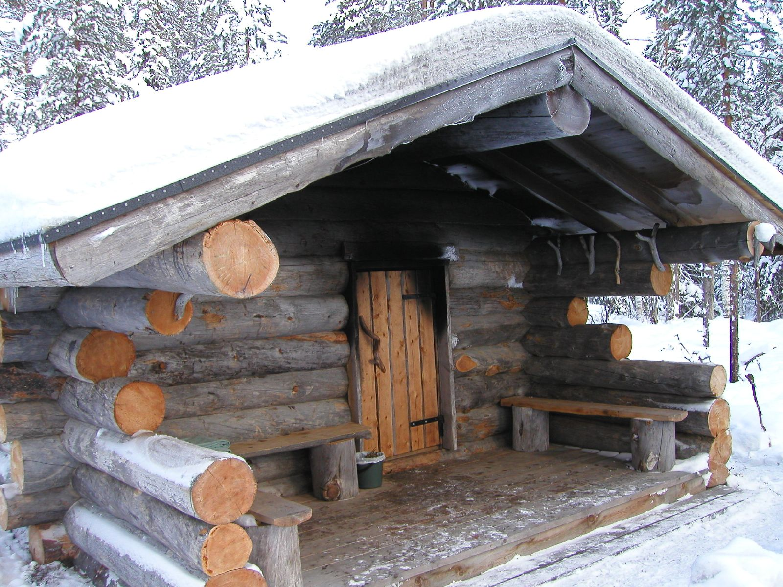 A traditional Finnish smoke sauna (savusauna) made out of logs